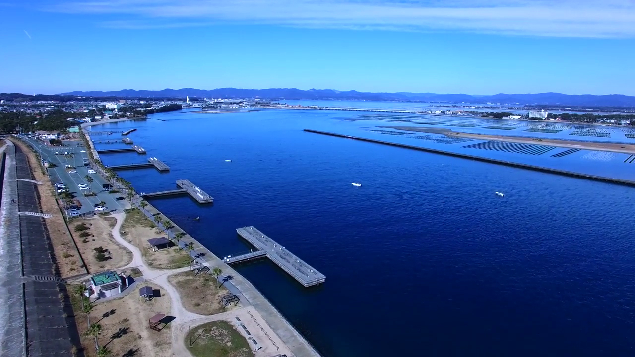 Aerial view of Lake Hamana in Shizuoka Prefecture, Japan.